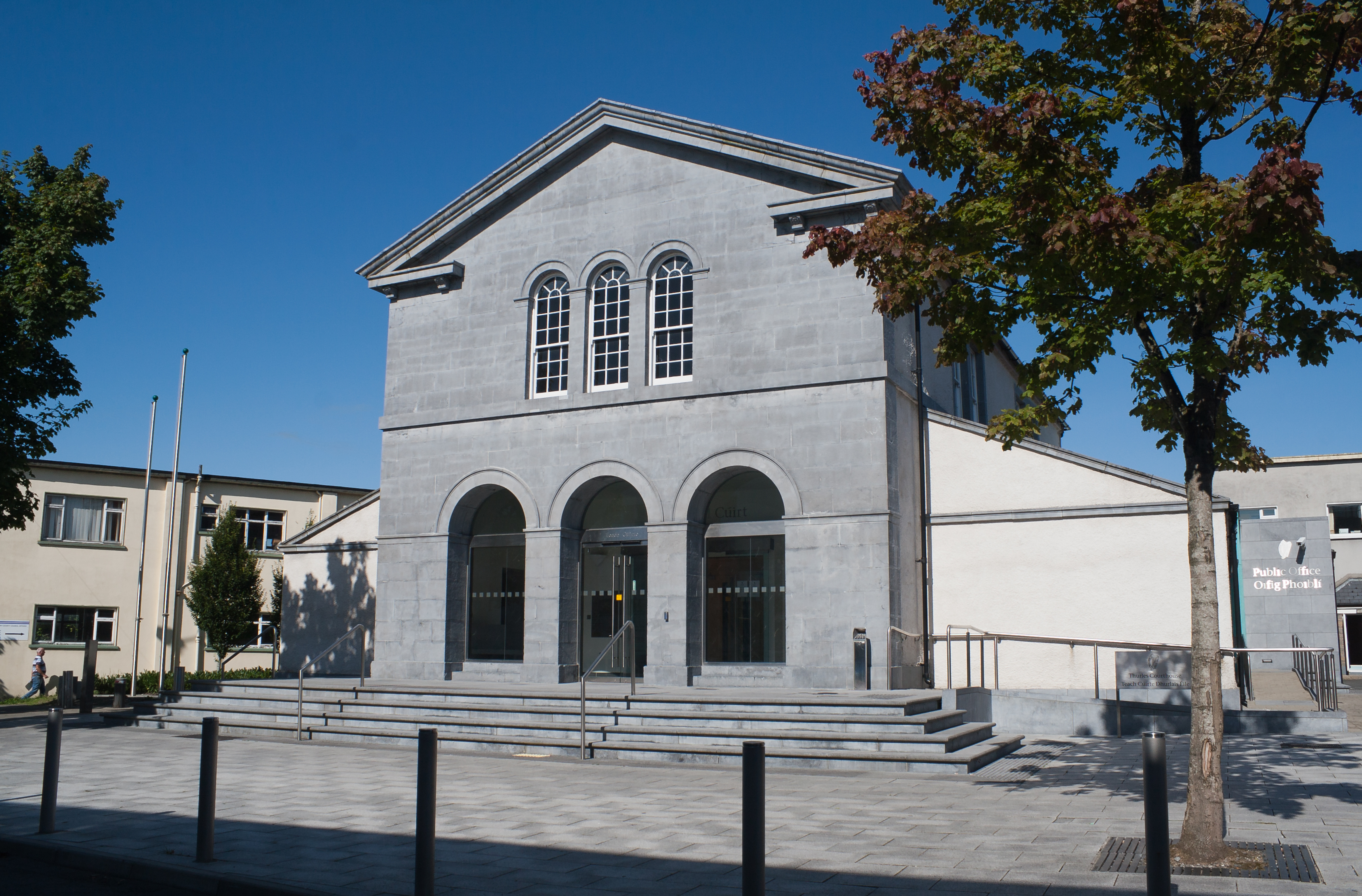 Thurles Court House at O'Donovan Rossa Street, built in 1826 under the direction of the architect William Vitruvius Morrison (1794–1838). Reg. no. 22312012 in the National Inventory of Architectural Heritage.